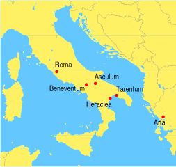 Wars between Rome and Taranto Rome Beneventum (mod. Benevento) - Battle of Beneventum (275 BC) Asculum (mod. Ascoli Satriano) - Battle of Asculum (279 BC) Heraclea - Battle of Heraclea (280 BC) Taranto Arta - capital of Epirus kingdom Image by User:Panairjdde. Under GFDL.